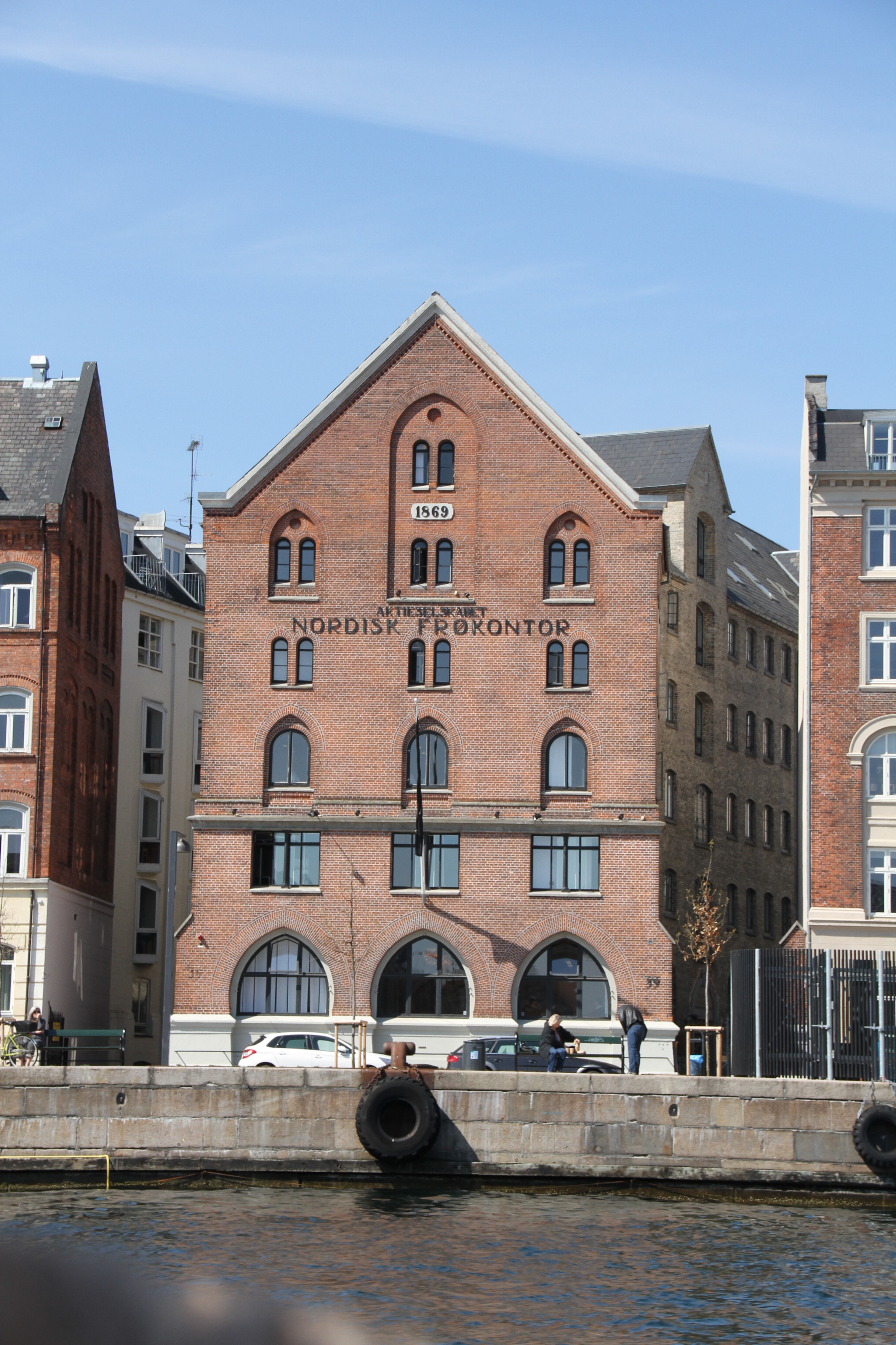 The former head office of Nordisk Frøkontor at Javnegade 39 in Copenhagen, Denmark)